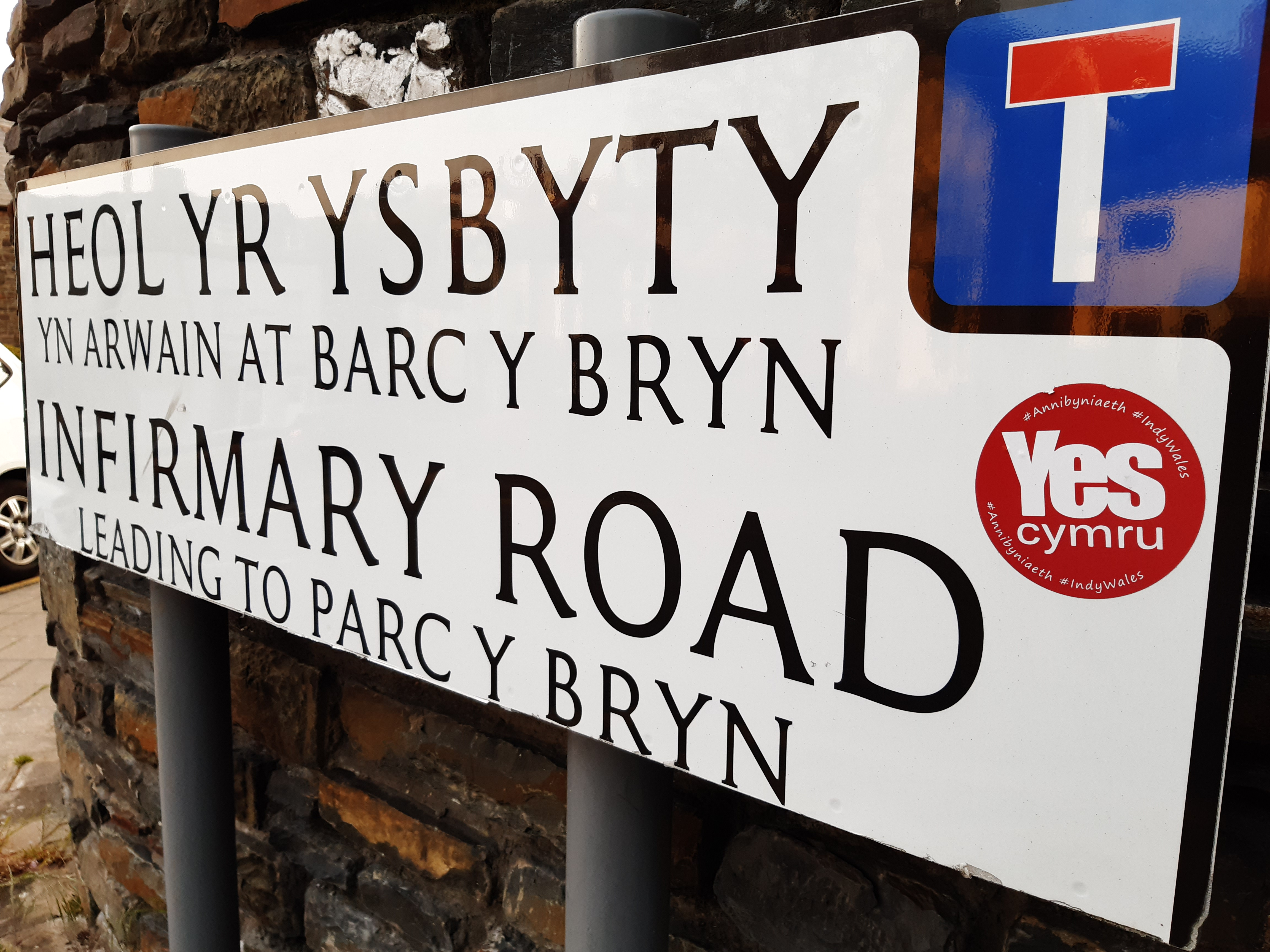 YesCymru sticker, street sign, Aberystwyth April 2020